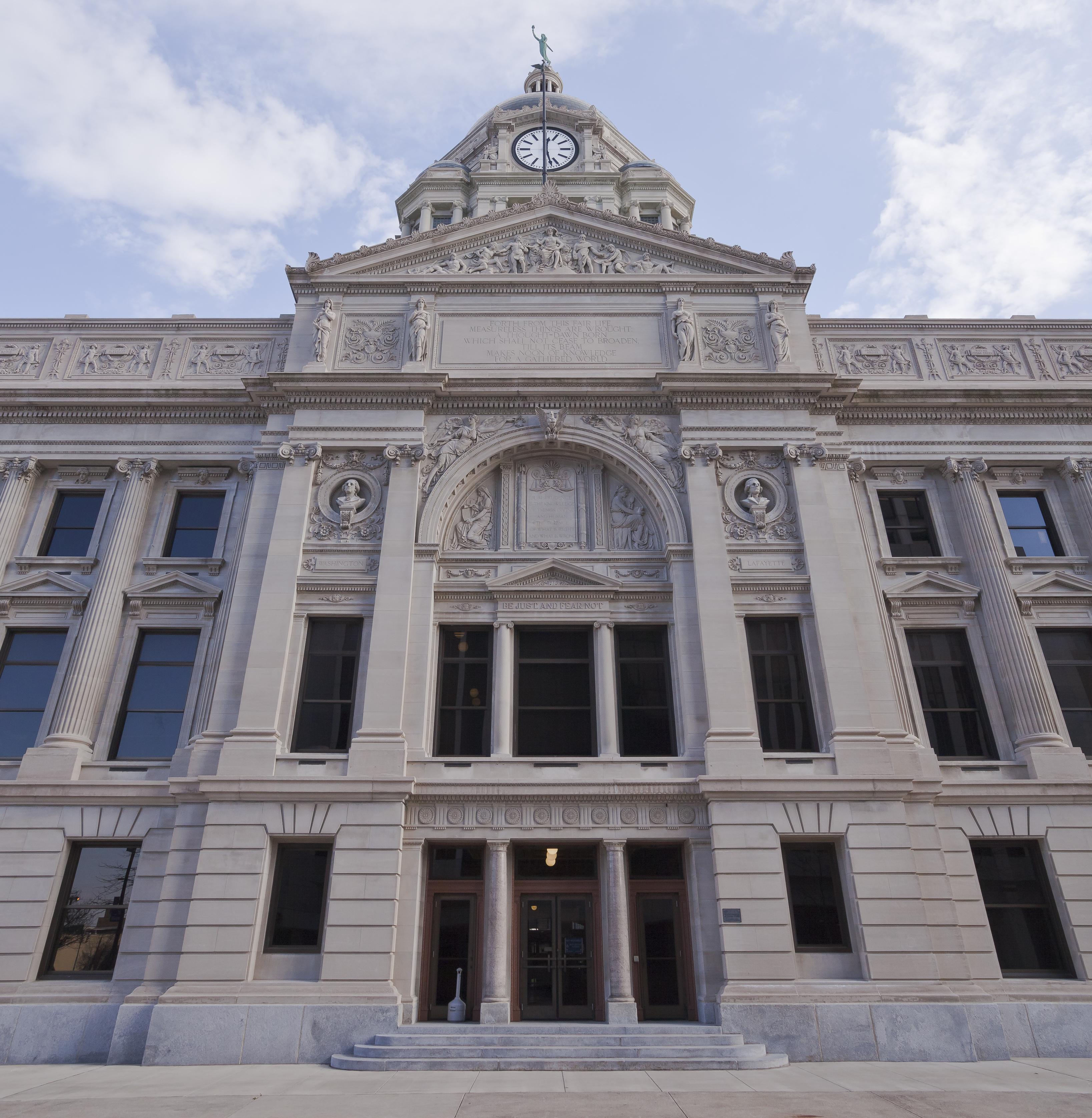 Allen County Courthouse, Fort Wayne, Indiana, USA